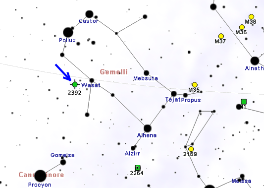 Map of NGC 2392